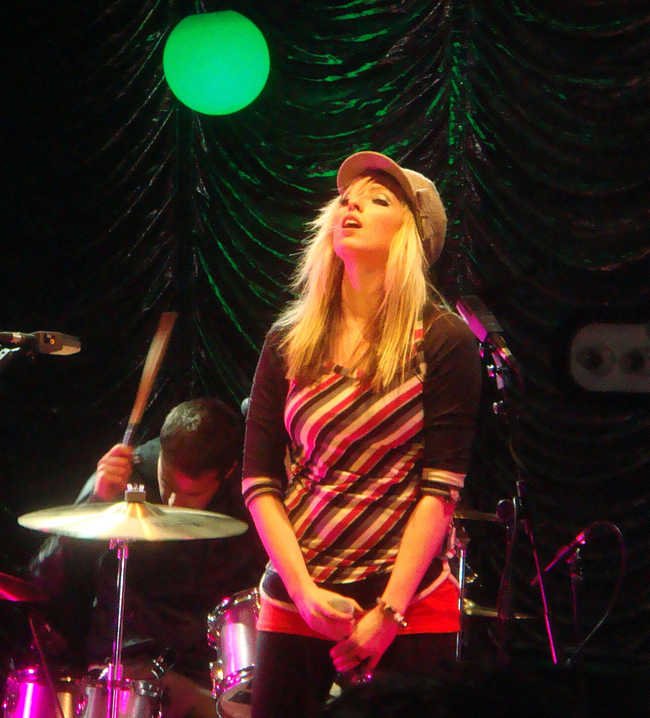 The Ting Tings XFM Awards